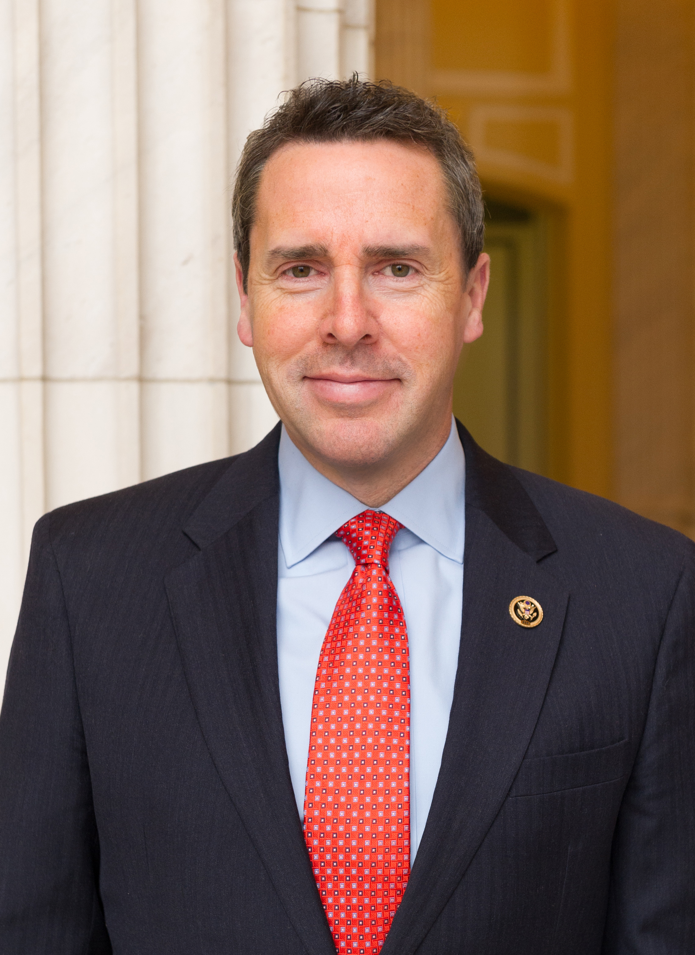 Mark Walker official photo, 114th Congress